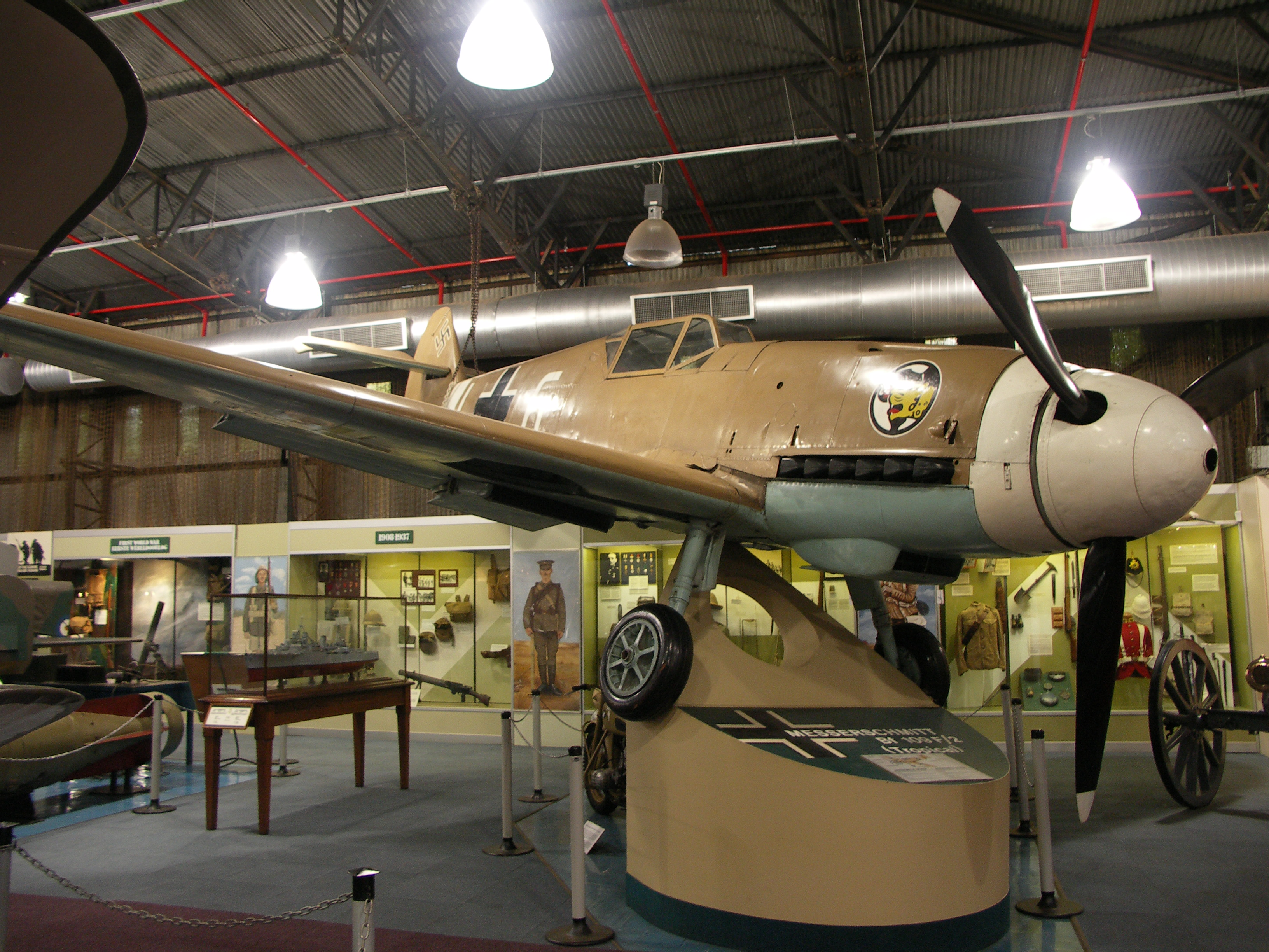 Messeschmitt Bf 109F-2 trop, WNr. 31010, White 6, JG027[1] South African National Museum of Military History, Johannesburg